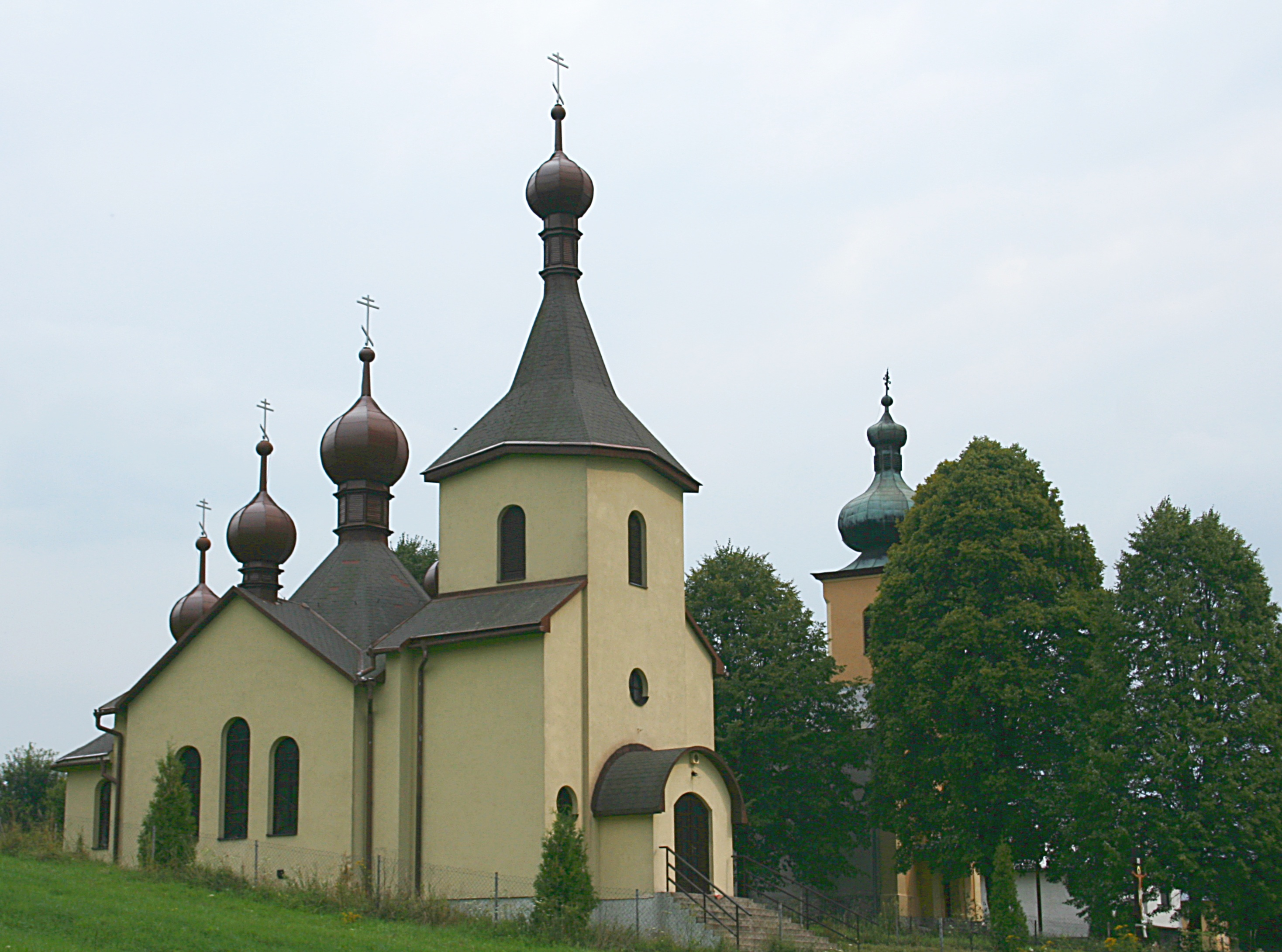 churches in Nižný Mirošov, village in Slovakia